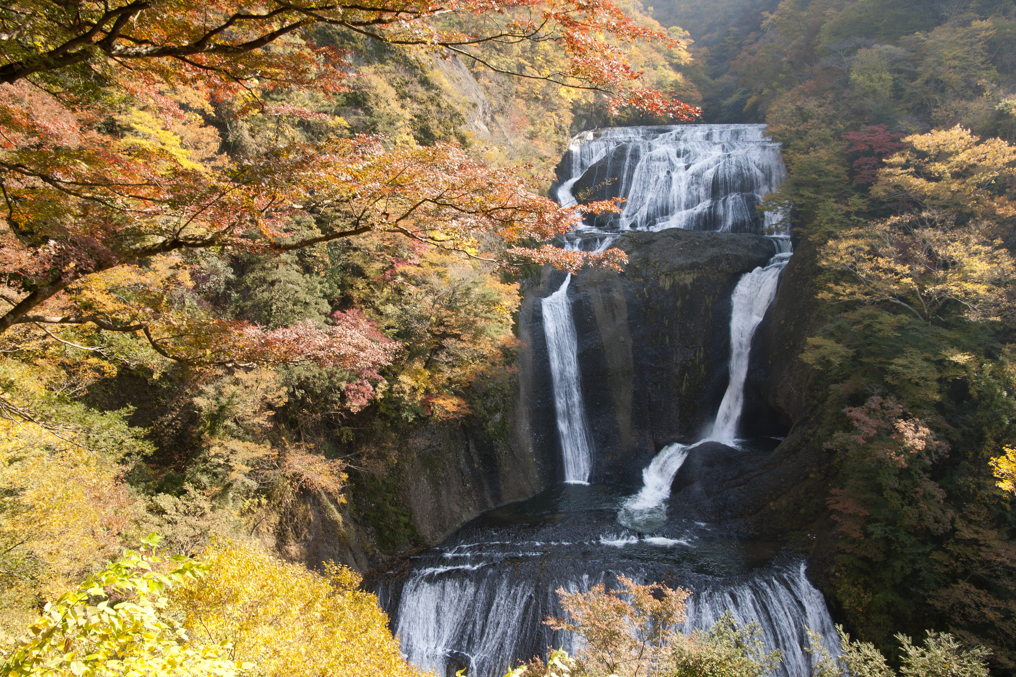 Fukuroda Falls (Fukuroda-no-taki 袋田の滝) in Daigo Town, Ibaraki Pref., Japan